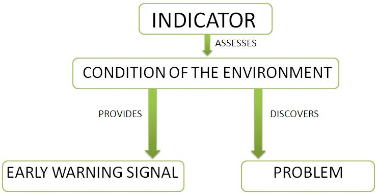 IndicatorsEcological Assessment